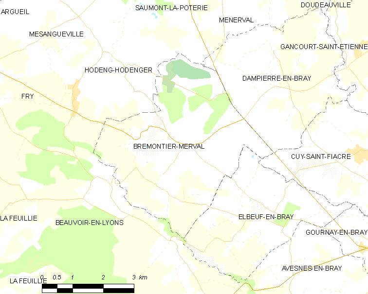 Map of French municipality Brémontier-Merval